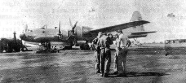 Photo of "American Beauty" B-29 42-2470e of the 792d Bomb Squadron 468th Bomb Wing, Kharagpur, India (World War II) Source: United States Air FOrce, United States Air Force Historical Research Agency, Maxwell AFB, Alabama (468th Bomb Group USAAF Historical Records)